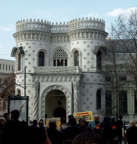 Moscow, Neo-Moorish Morozov Mansion on Vozdvizhenka Street. You see it leaving Arbatskaya-Metrostation towards Vozdvizenka street